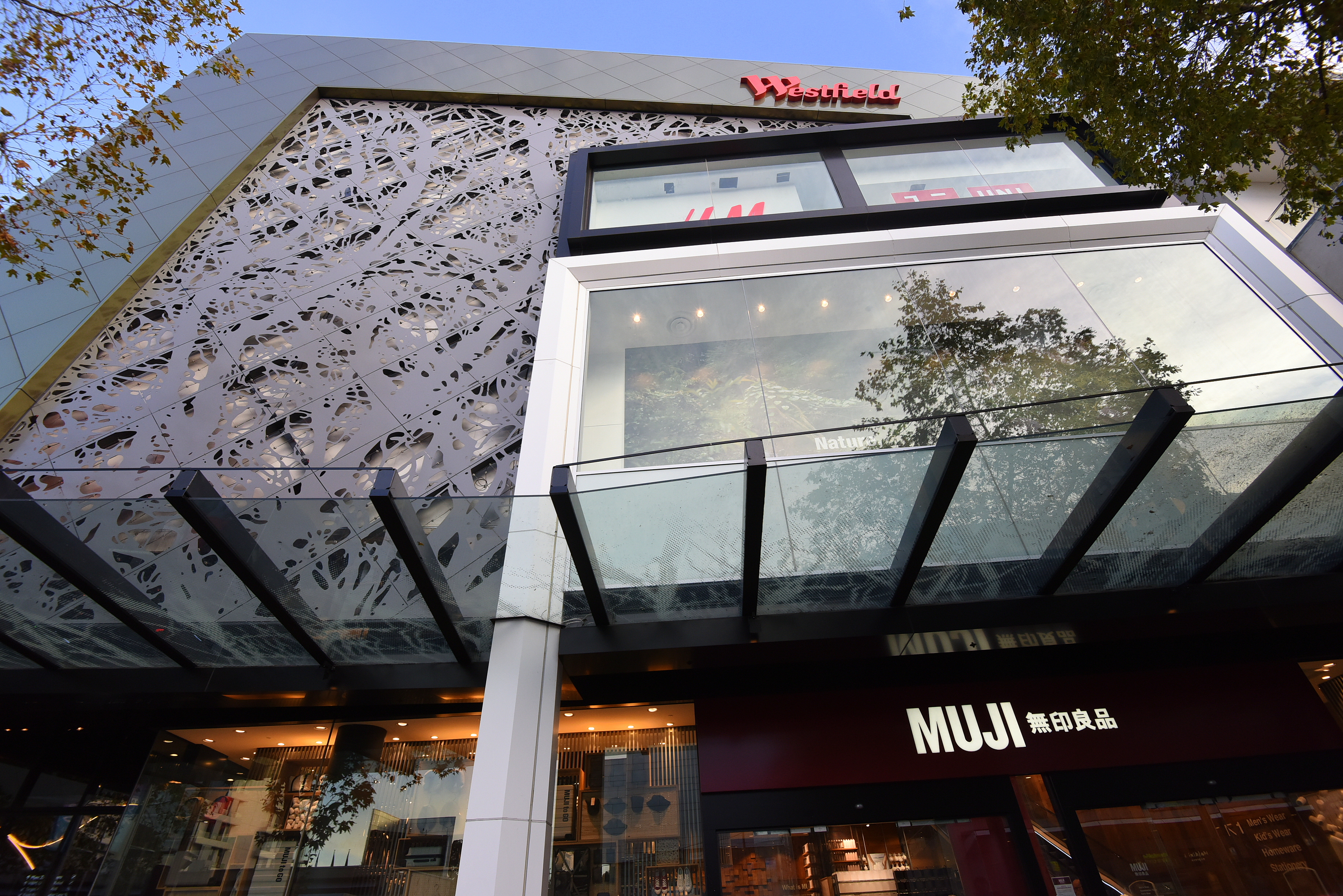 Westfield shopping centre, Chatswood, Sydney